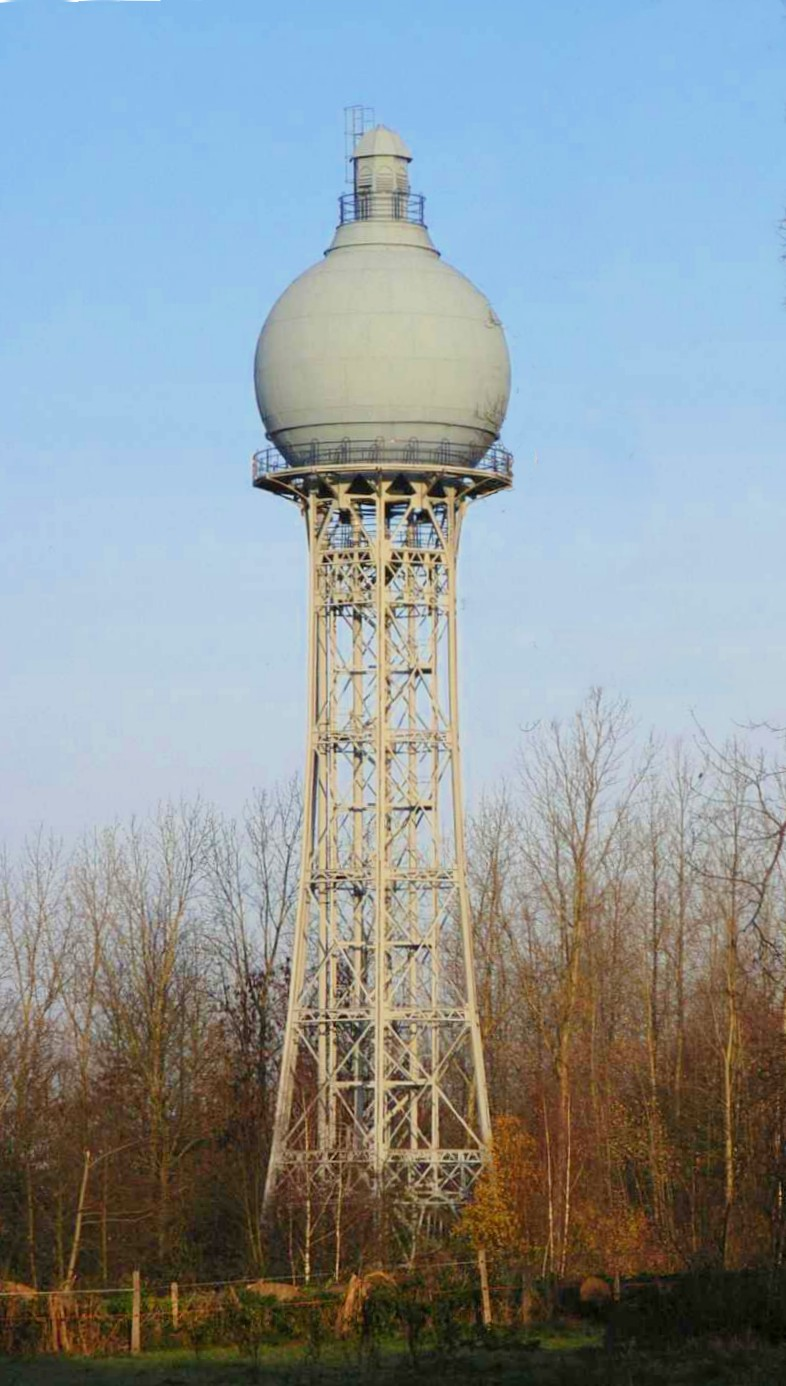 Water tower of the Carolus Magnus mine in Übach-Palenberg